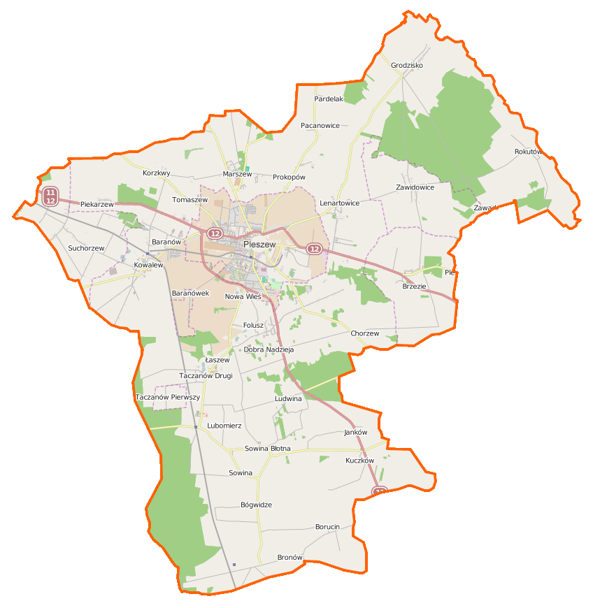 Map of Gmina Pleszew, Poland This map of Pleszew (gmina) was created from OpenStreetMap project data, collected by the community. This map may be incomplete, and may contain errors. Don't rely solely on it for navigation. Border coordinates51.969217.6609←↕→17.952351.7848